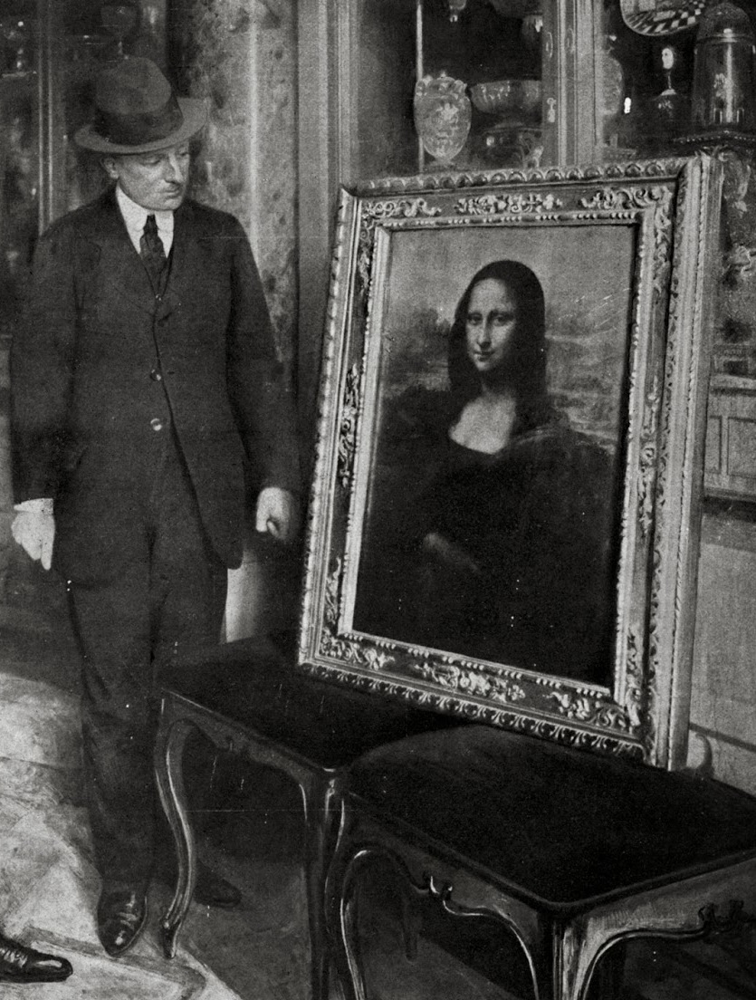 The Mona Lisa on display in the Uffizi Gallery, in Florence (Italy). Museum director Giovanni Poggi (right) inspects the painting. The masterpiece would be latter returned to Museum of Louvre where it had been stolen from.